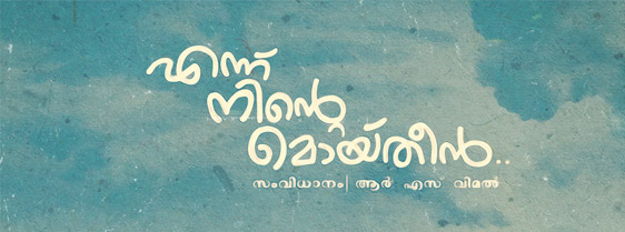 This Photo is Typography of new malayalam movie "Ennu Ninte Moideen"